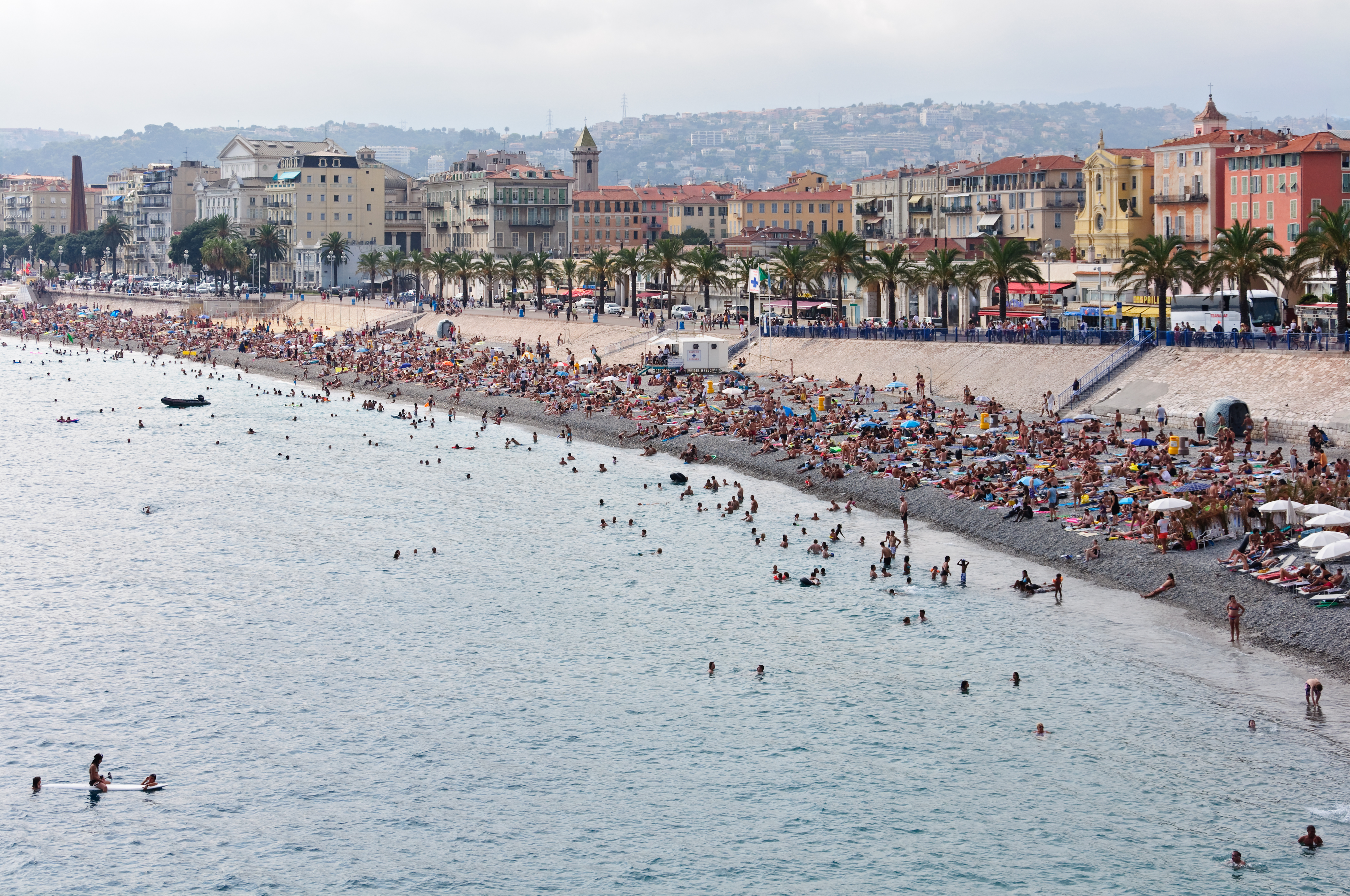 Public beach below 'Quai des États-Unis' in Nice, French Riviera.